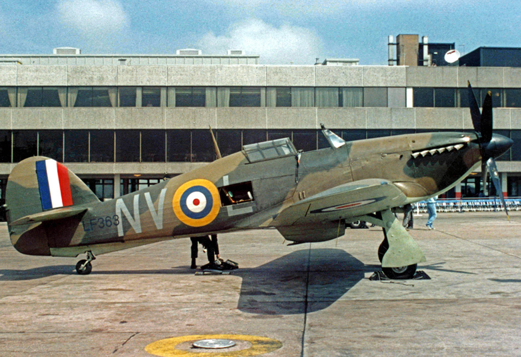 Hawker Hurricane IIC LF363 wearing the code markings of No.79 Squadron RAF